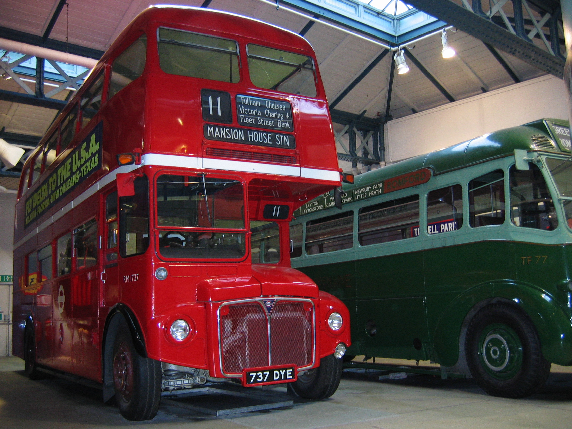 Routemaster in The London Transport Museum in 2004.